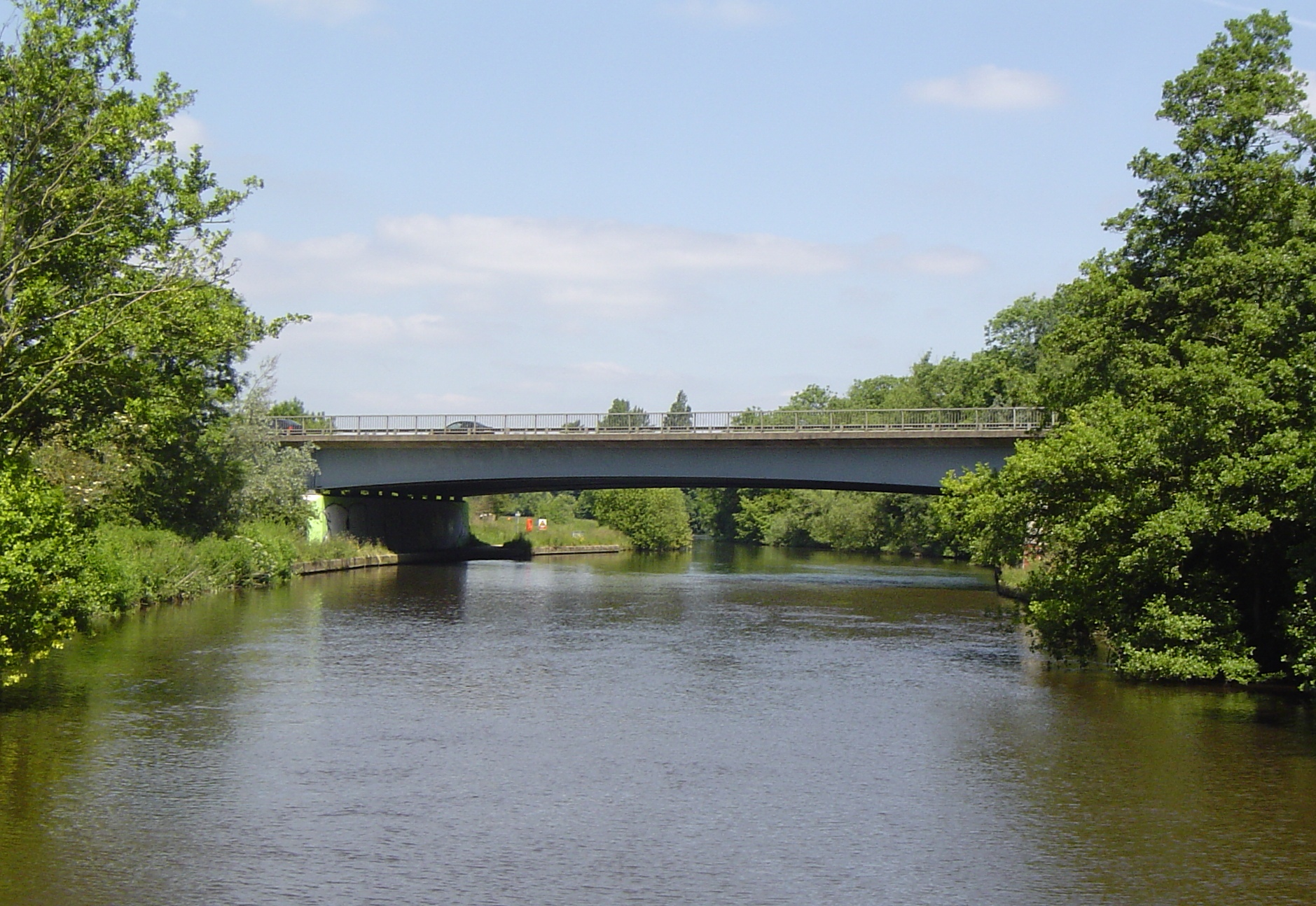 Isis Bridge over the River Thames at Oxford